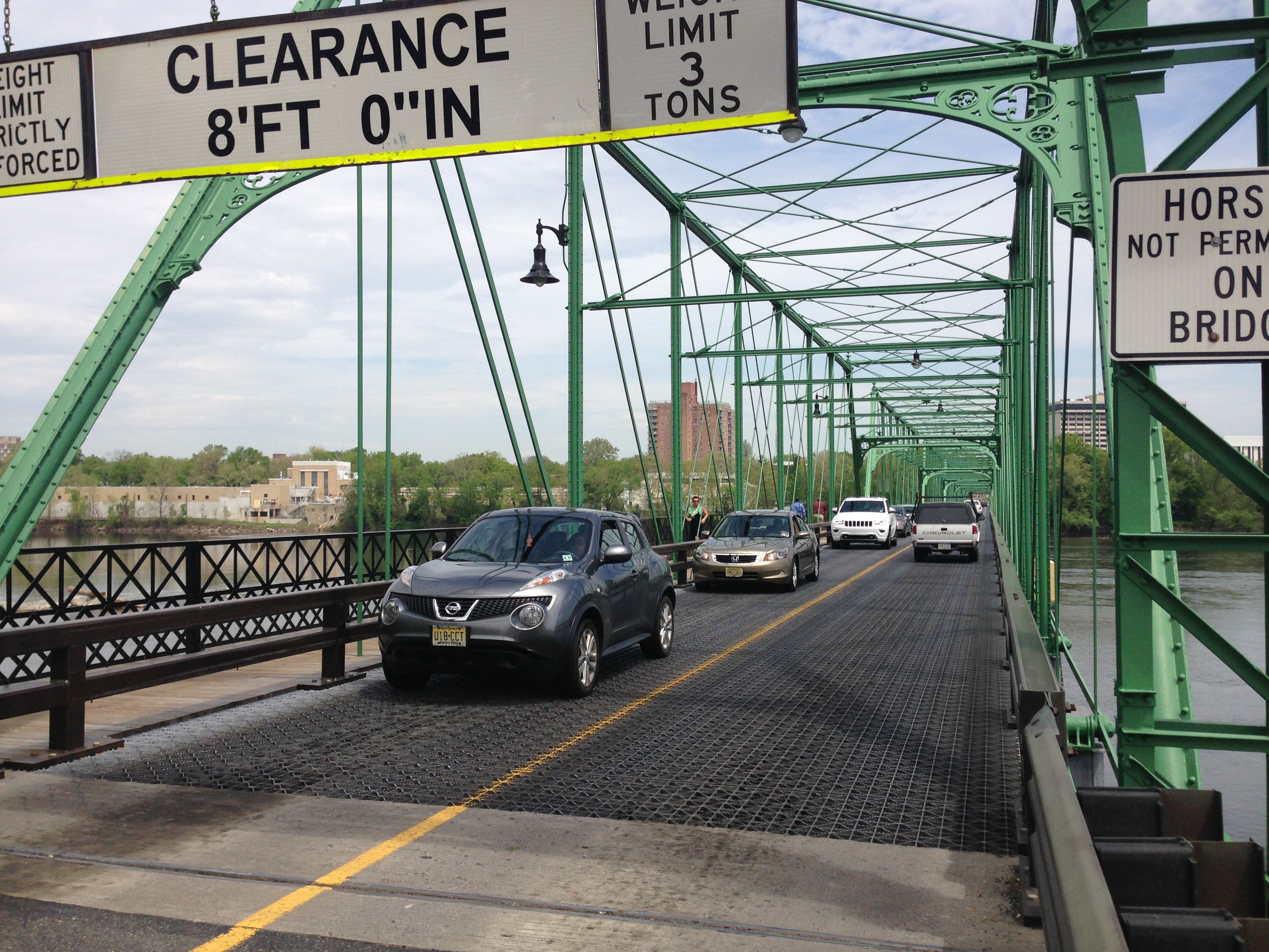 View east along the Calhoun Street Bridge from the west end in Morrisville, Pennsylvania